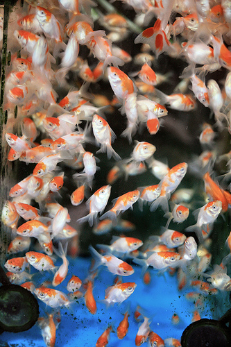 Goldfishes in a tank in Hong Kong's fish market